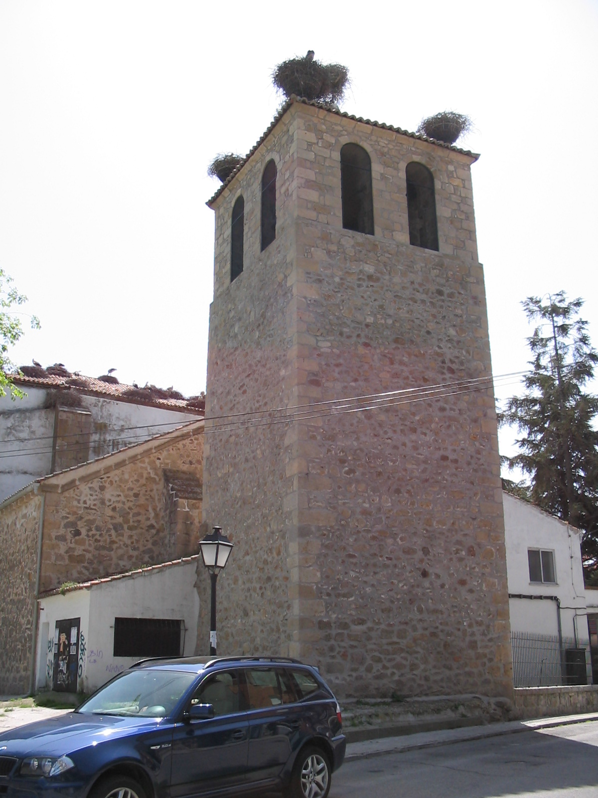 Soto del Real' church